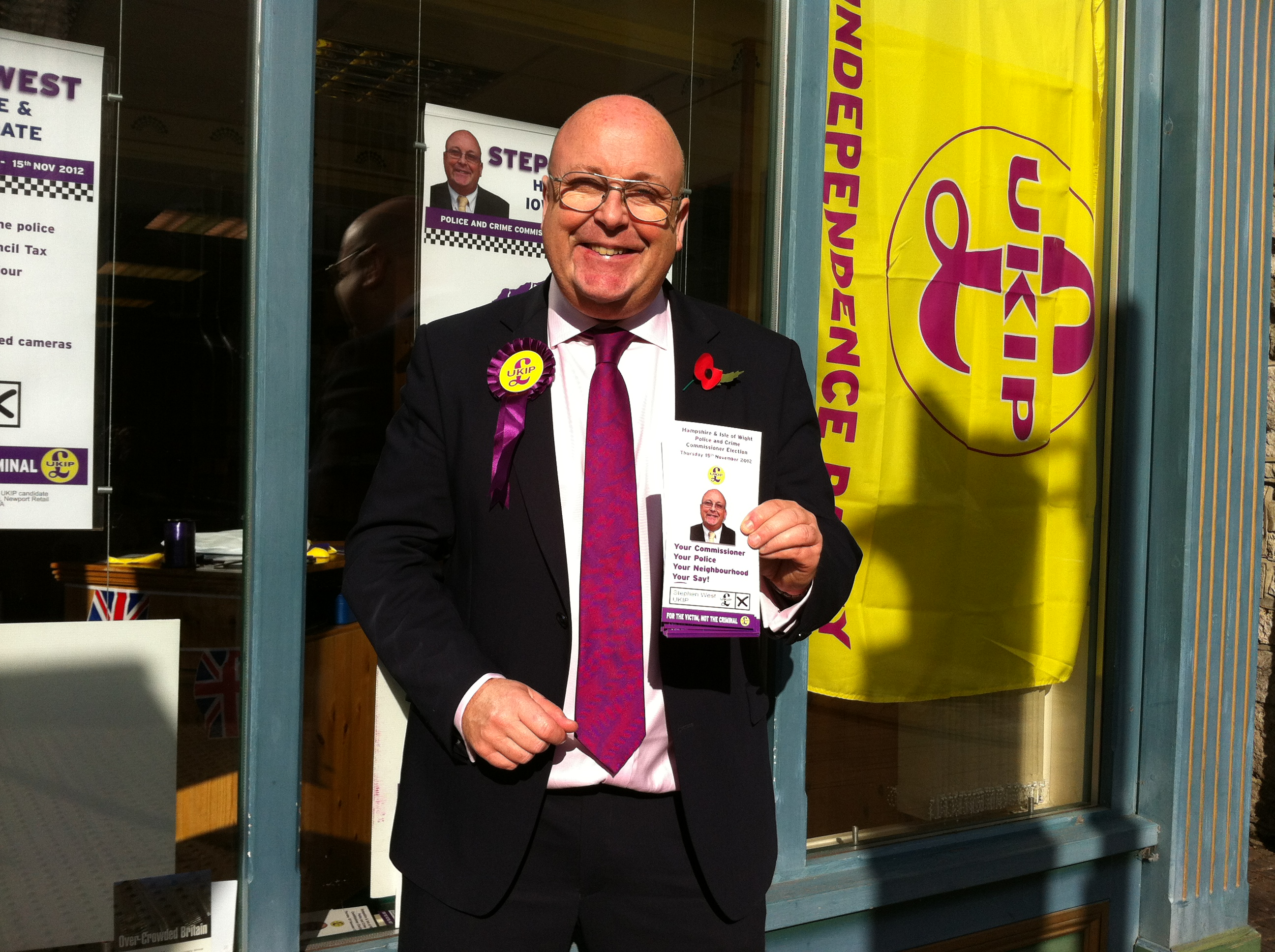 A pop-up shop in the High Street, Newport, Isle of Wight for Stephen West, UKIP candidate for the Hampshire Police & Crime Commissioner elections in November 2012.